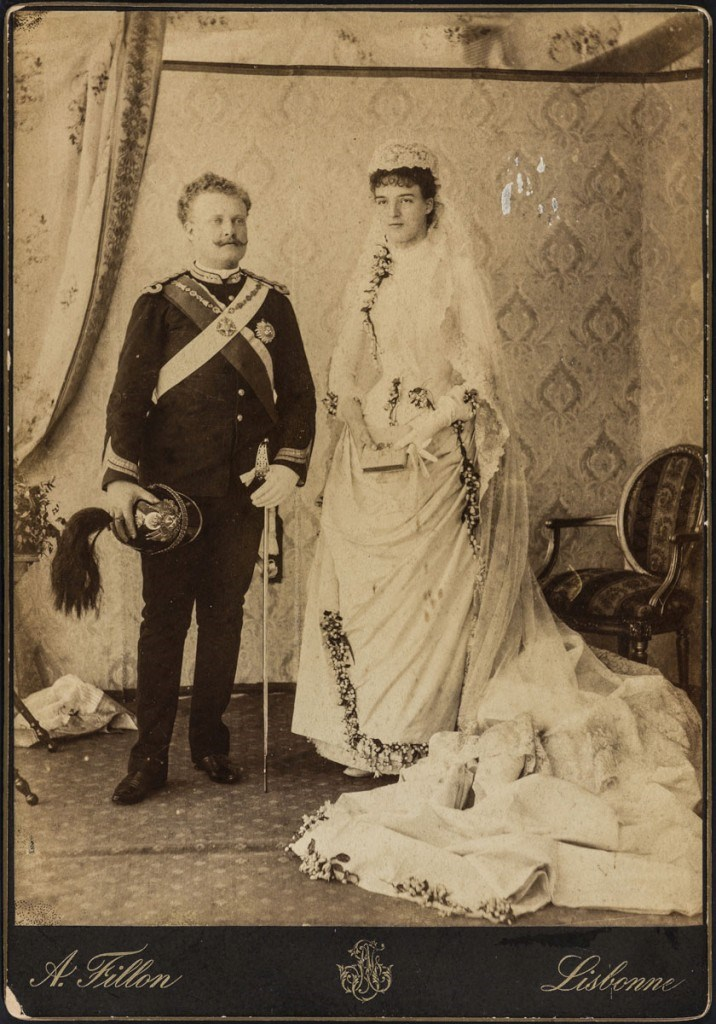 Wedding of Carlos I of Portugal and Amélie of Orléans